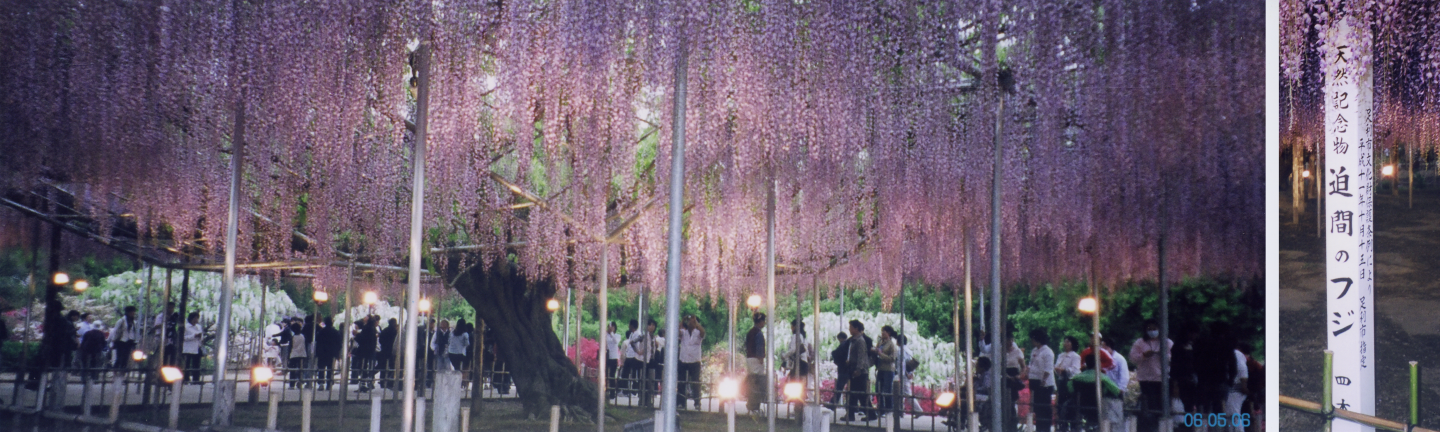 Great wisteria blossom at Ashikaga Flower Park in Ashikaga city Tochigi pref. Japan. Aged approx. 150 years old and approx. 160,000 clusters spreads to approx. 1,000 Square metre which is widest in Japan. (Information based on 2015 May 4 news paper Yomiuri Shimbun ver.13S page1.) Photo taken in May 2006. Two Pics combined to one for saving page space.